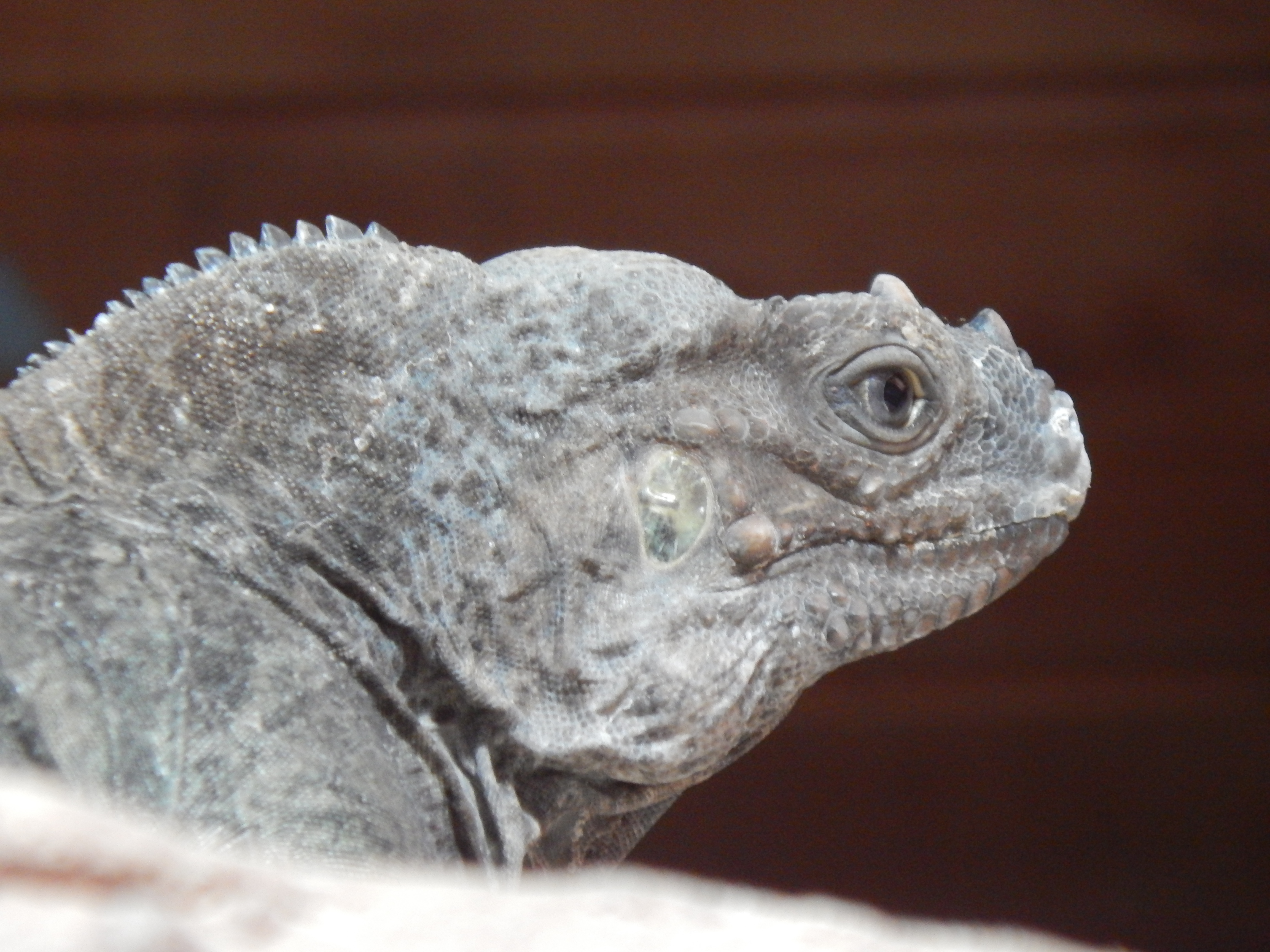 Portrait of a rhinoceros iguana (Cyclura cornuta) in the fossilium of the Tierpark Bochum, Germany.